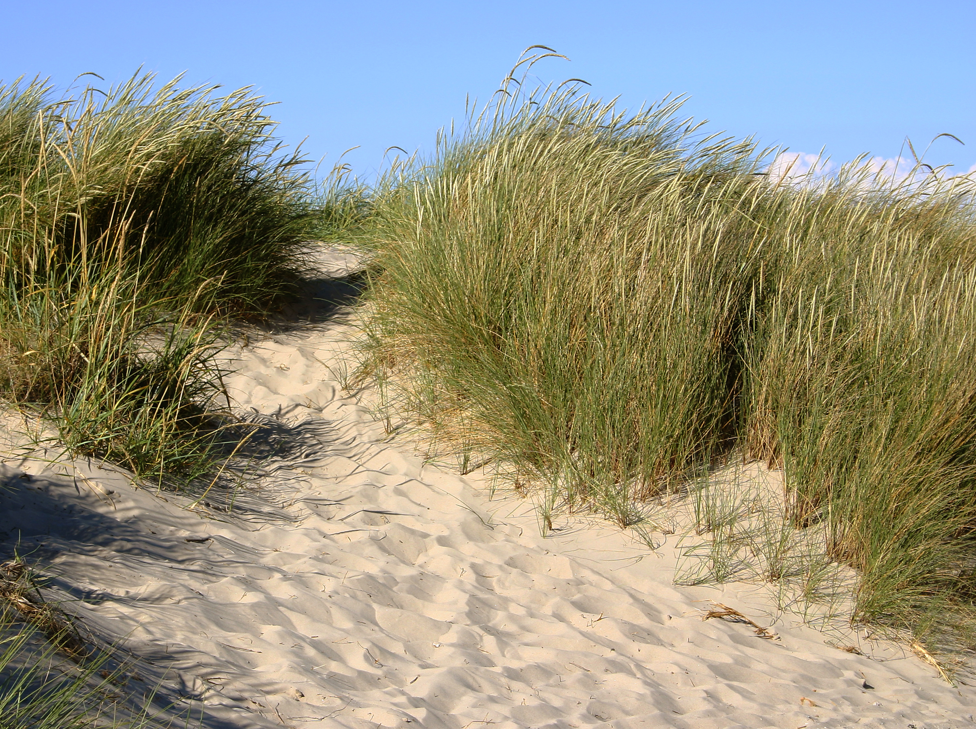 White dune with Marram grass (Ammophila arenaria), Grenen, Denmark